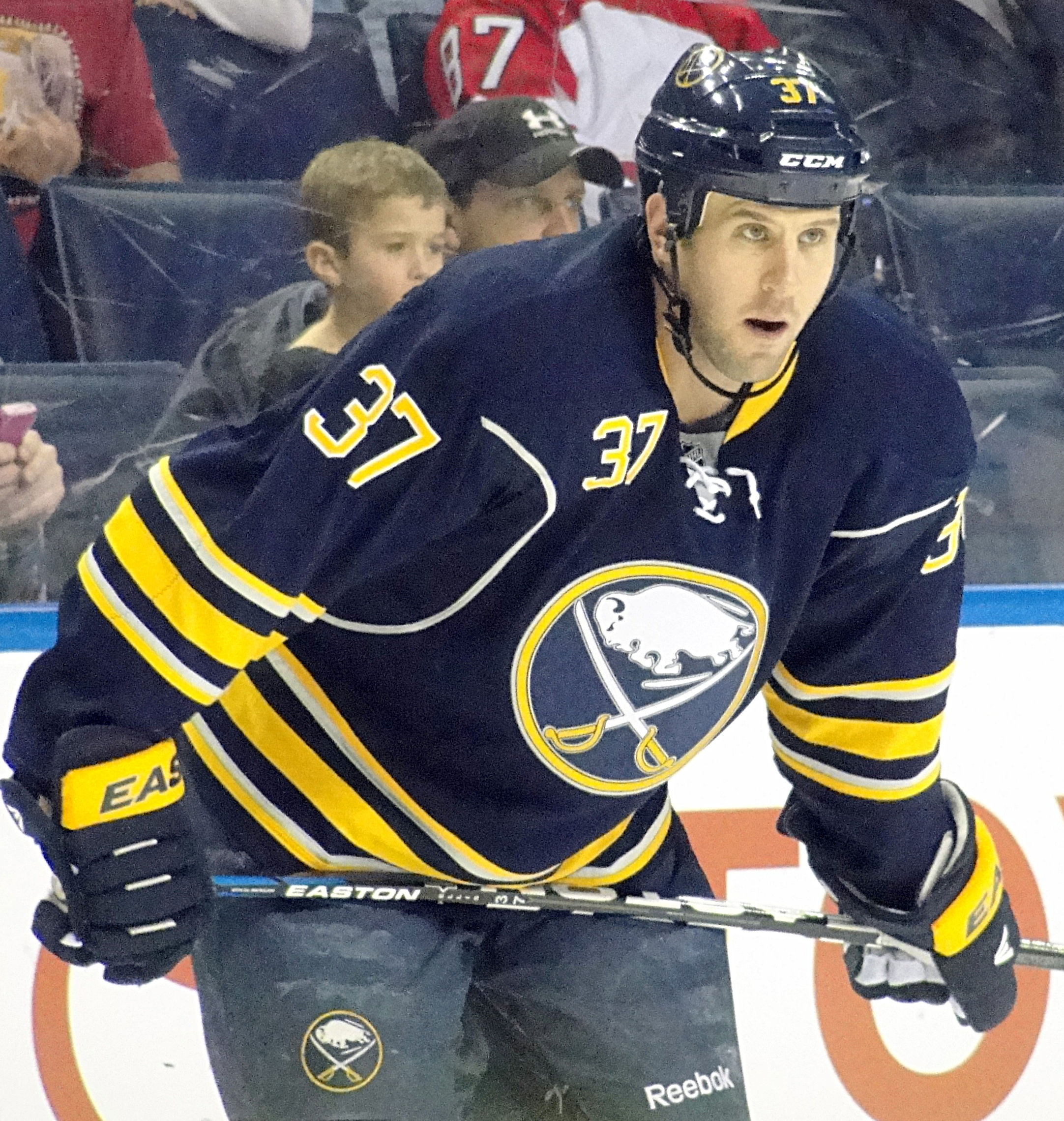 Buffalo Sabres forward Matt Ellis warms up for a February 19, 2012 game against the Pittsburgh Penguins at First Niagara Center in Buffalo, NY.